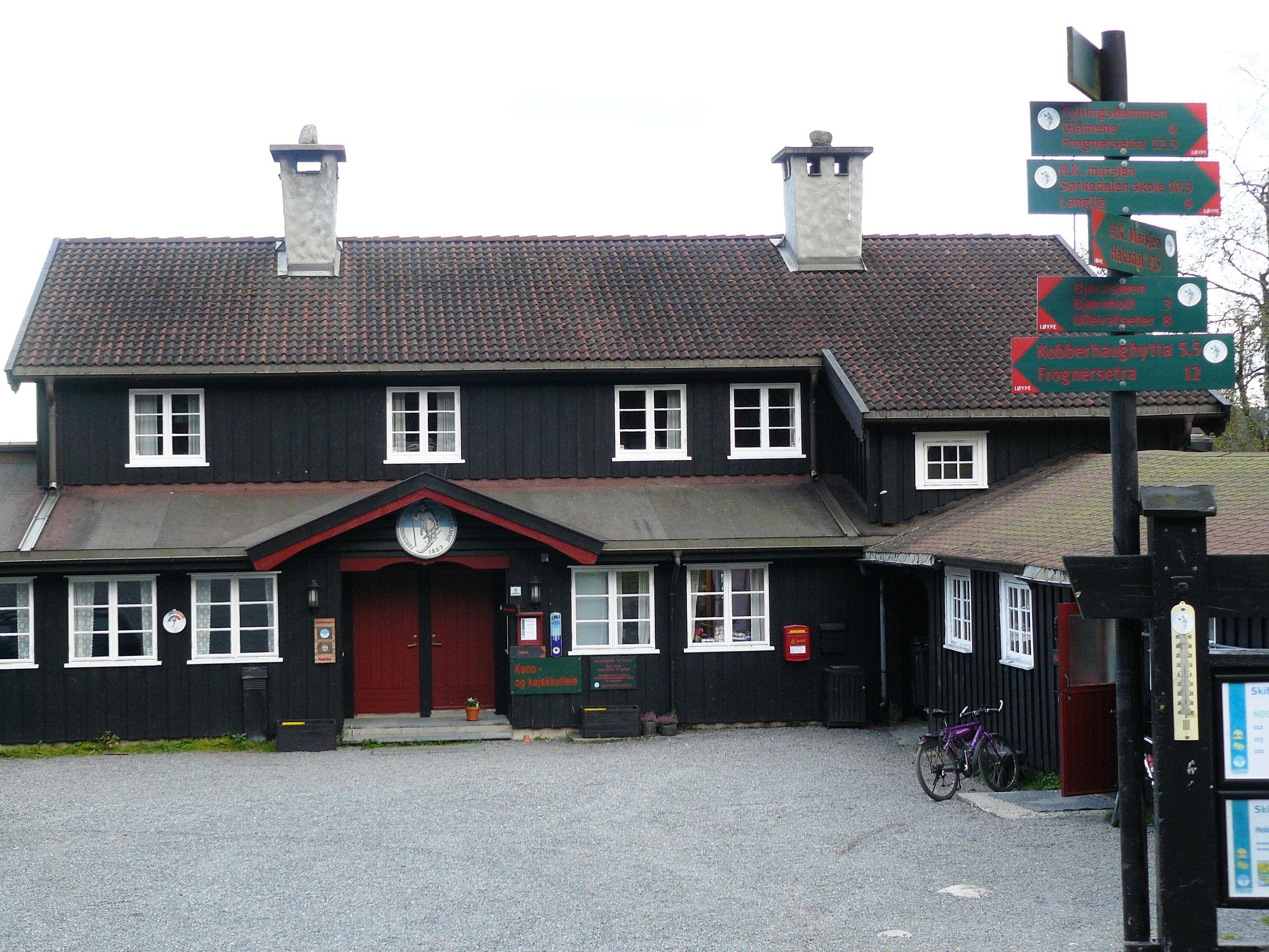 Kikut turistcabin in Nordmarka, Oslo. Architect Thorvald Astrup.